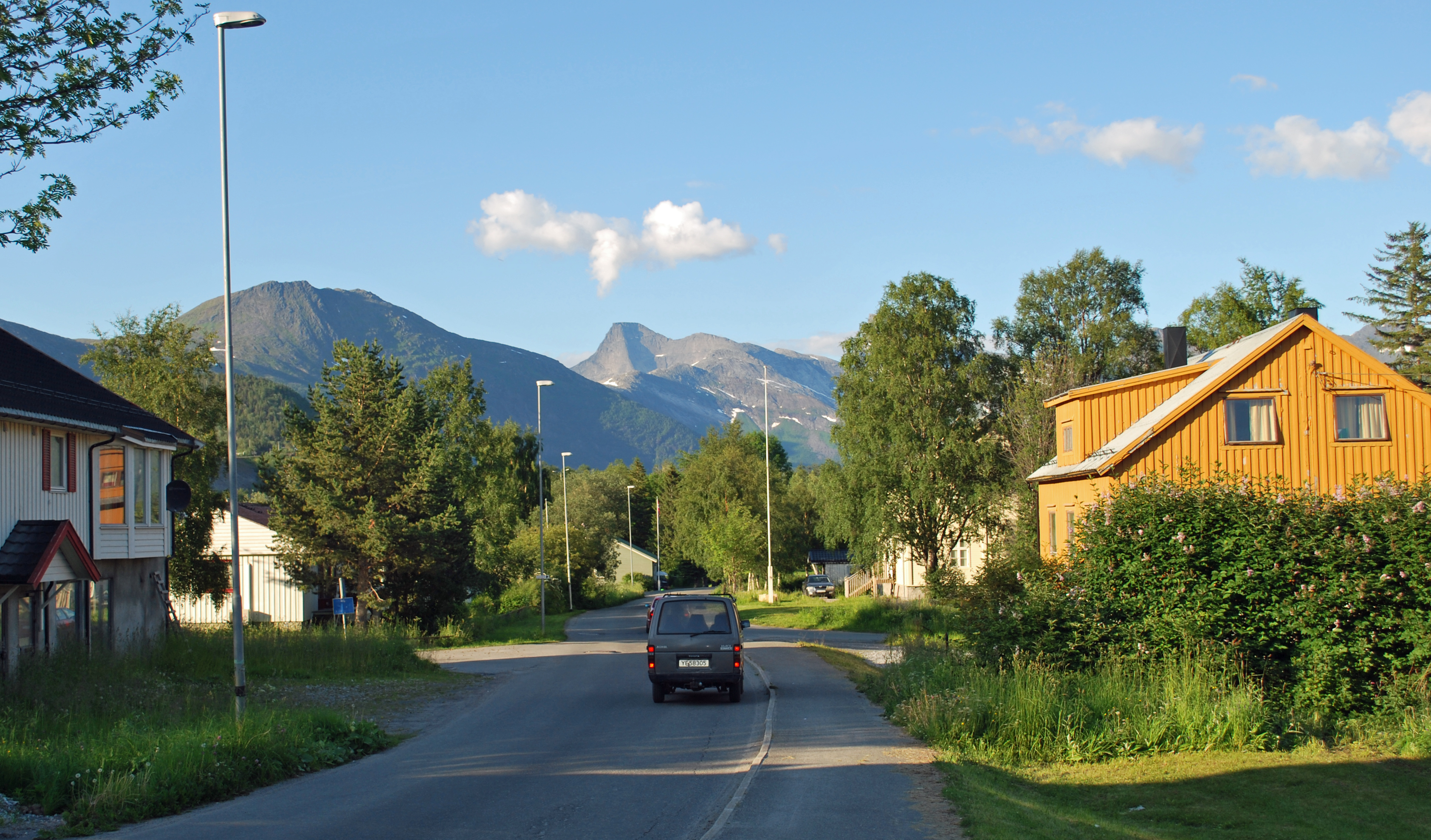 Main Street (Norw. Hovedveien), Kjøpsvik, Nordland